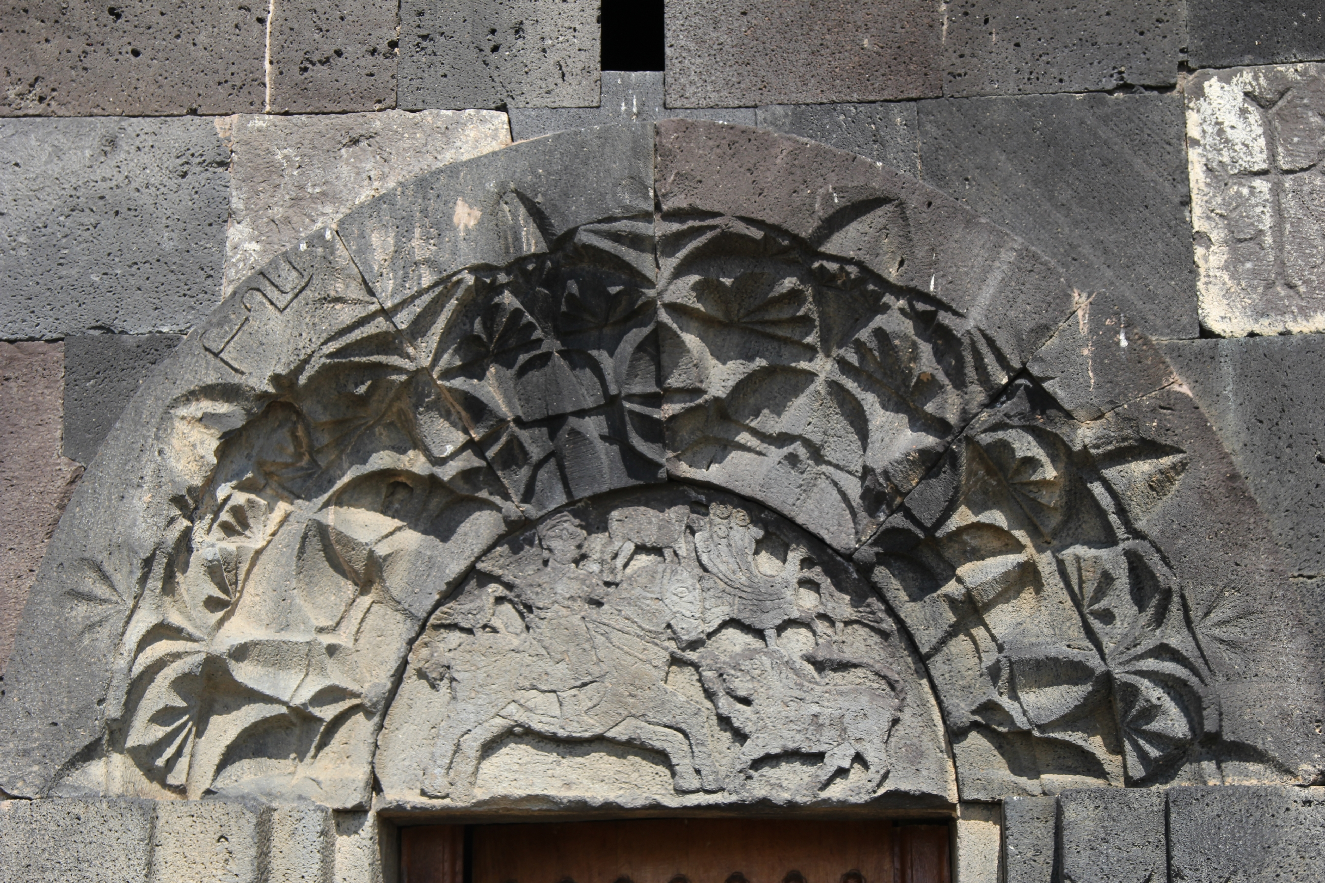 Tanahat_Monastery 42/8